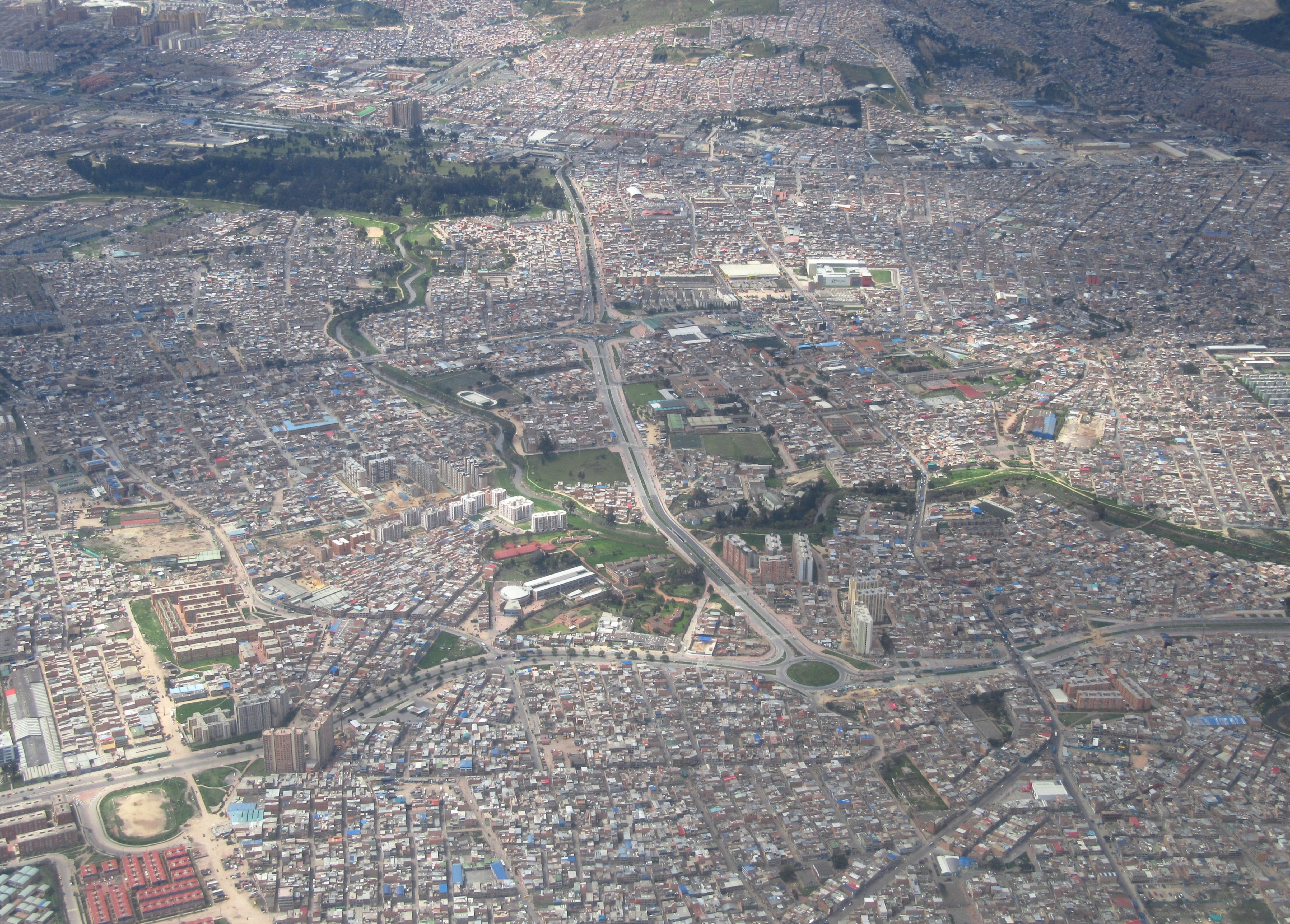 Bogotá